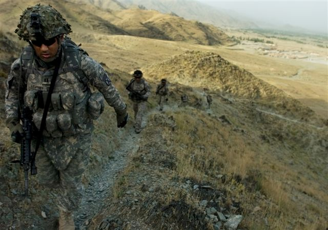 Soldiers with Headquarters and Headquarters Company, 1st Battalion, 32nd Infantry Regiment, 10th Mountain Division, patrol outside Forward Operating Base Joyce, in Kunar province. During the Patrol, the Soldiers met with Afghan border police officers to discuss continued security along the border between Afghanistan and Pakistan. Photo by Sgt. Matthew Moeller